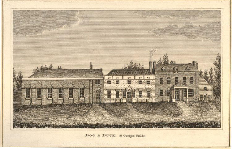 View of the front of the tavern and adjoining buildings in St George's Fields; taken down in 1812 to make way for the new Bethlem Hospital. 1772 Etching and engraving The Trustees of the British Museum Height: 126 millimetres, Width: 195 millimetres (trimmed) Curator's comments: This is possibly an illustration to a magazine.